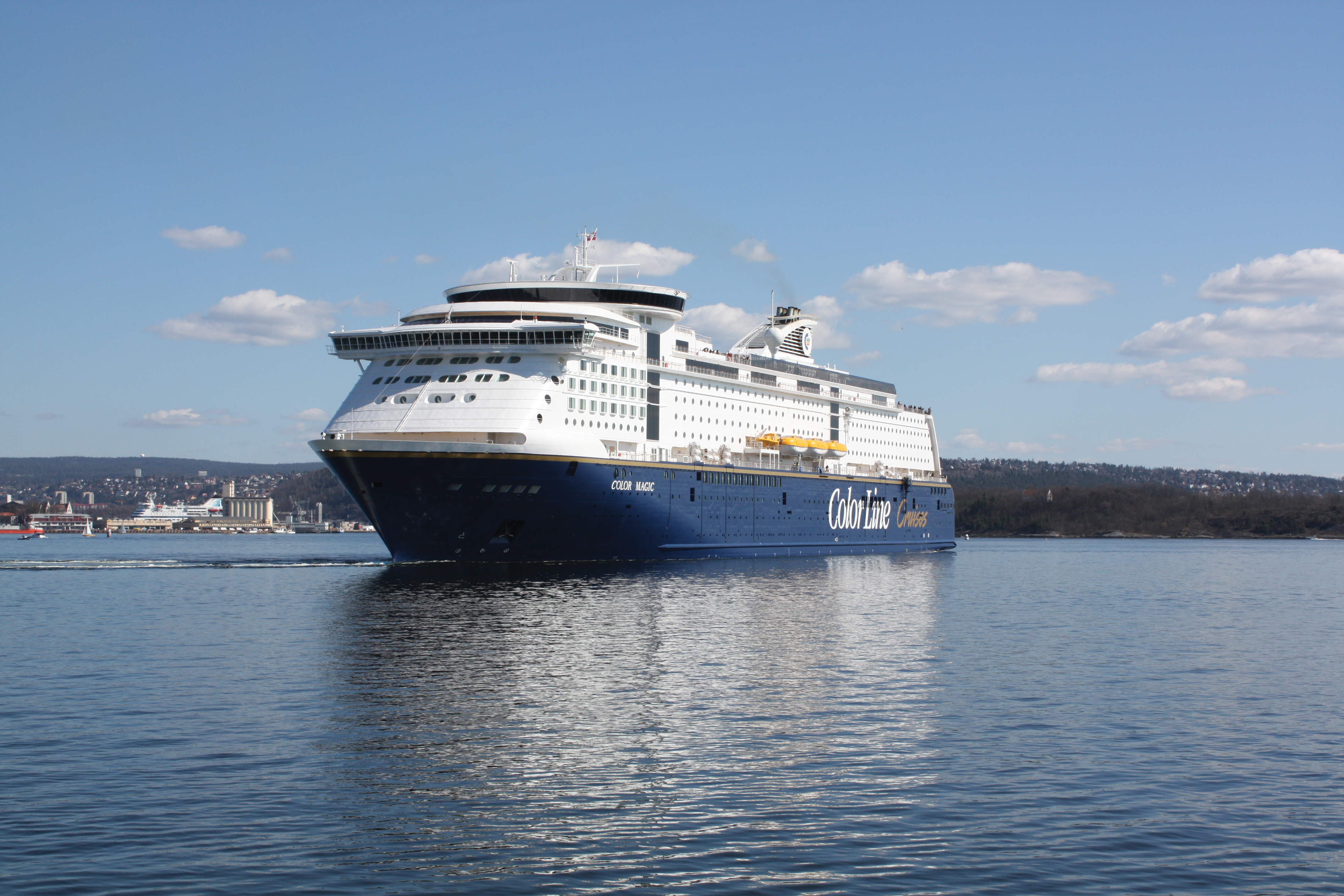 Color Magic trafikkerer linjen Color Line betjener mellom Oslo – Kiel. Color Magic sailes on the route Color Line operate between Oslo - Kiel. Photo: Jale Jessen/Color Line